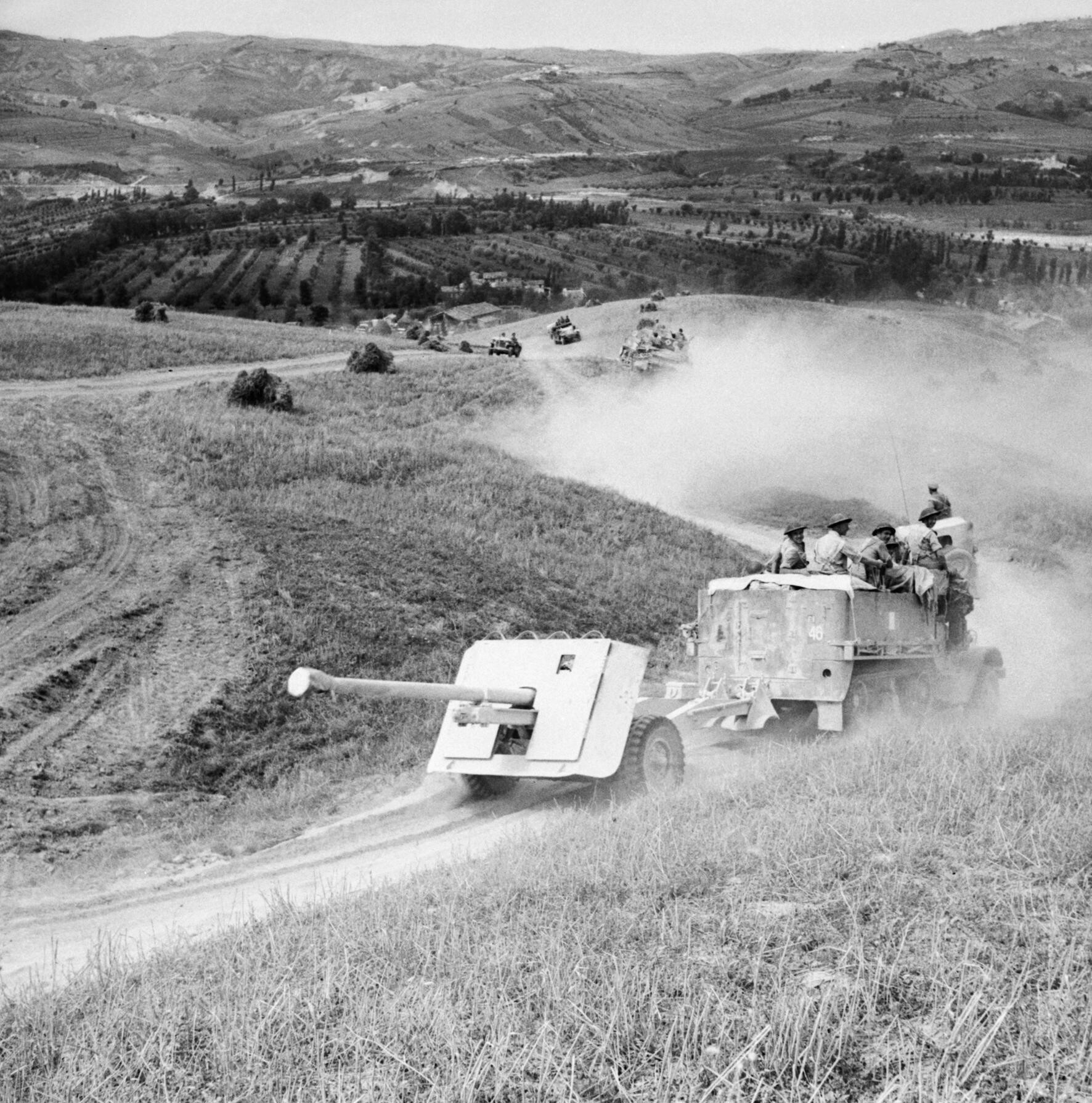 The British Army in Italy 1944 A 17pdr anti-tank gun and half-track of 269/67th Anti-Tank Regiment approaches the River Foglia, 1 September 1944.